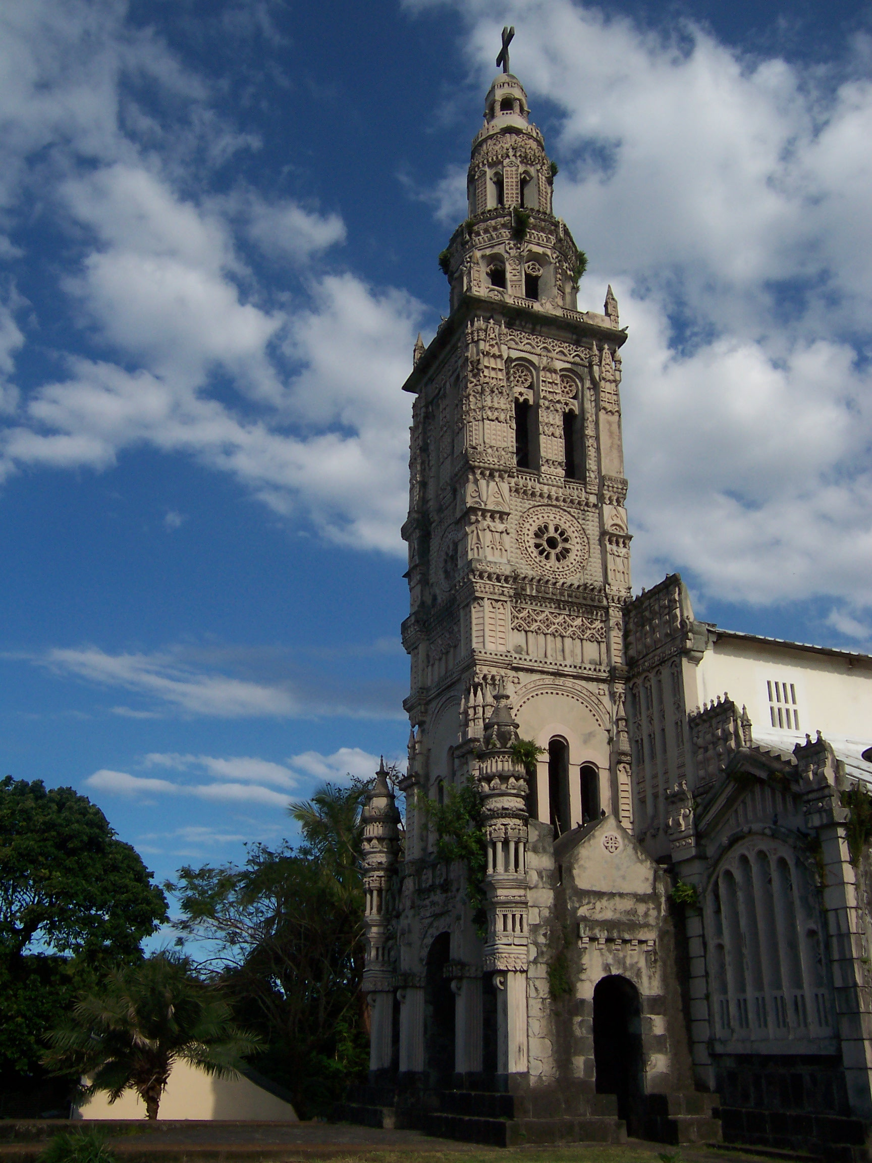 Church of Sainte-Anne, in the commune of Saint-Benoît, Réunion Island.